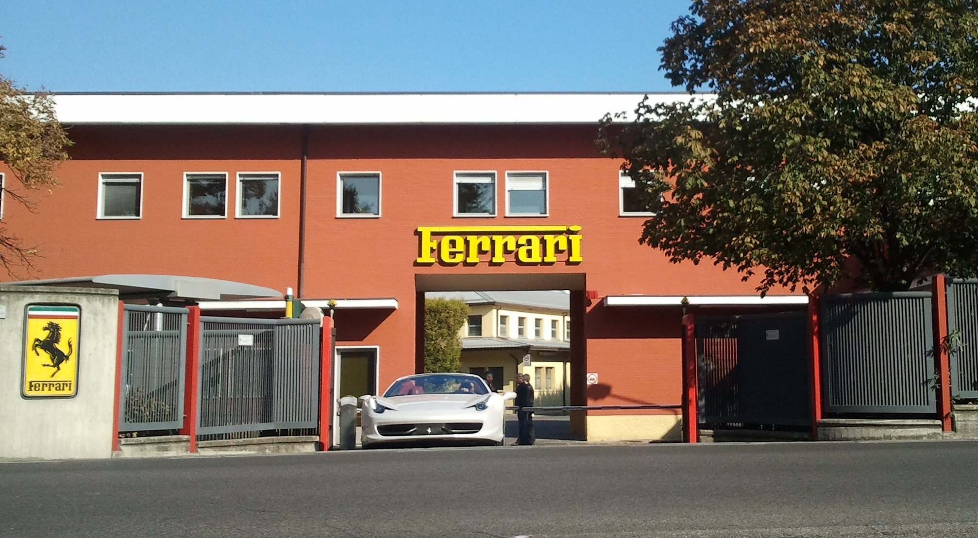 Ferrari 458 Spider at Ferrari facility (West entry). Maranello. Italy